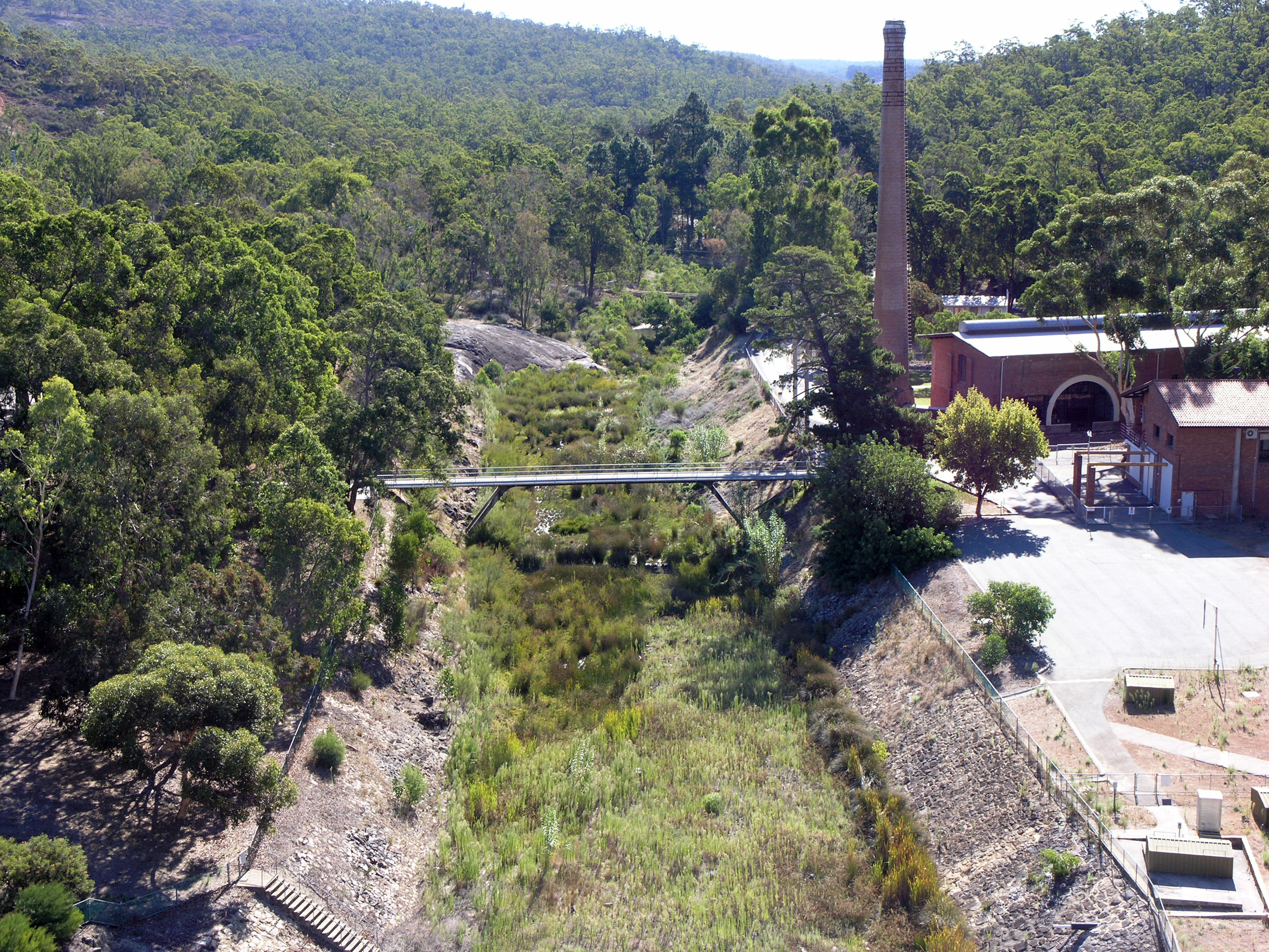 Mundaring Weir in the Darling Range, Perth, WA. Taken by me SeanMack.